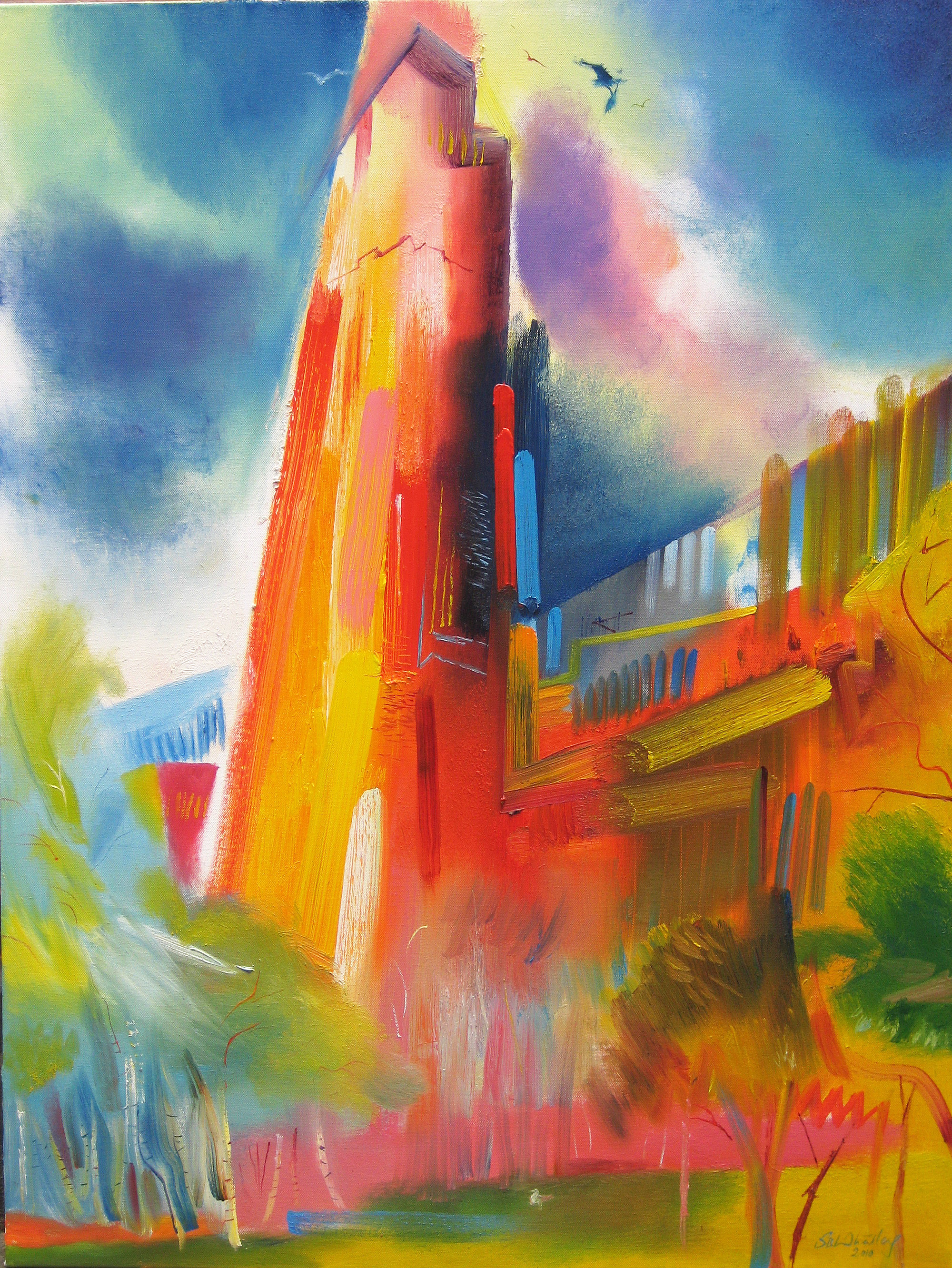 Tribute to a Decade. 2010 ( Oil on canvas, 40 x 30in, 102 x 76cm) by Stephen B Whatley